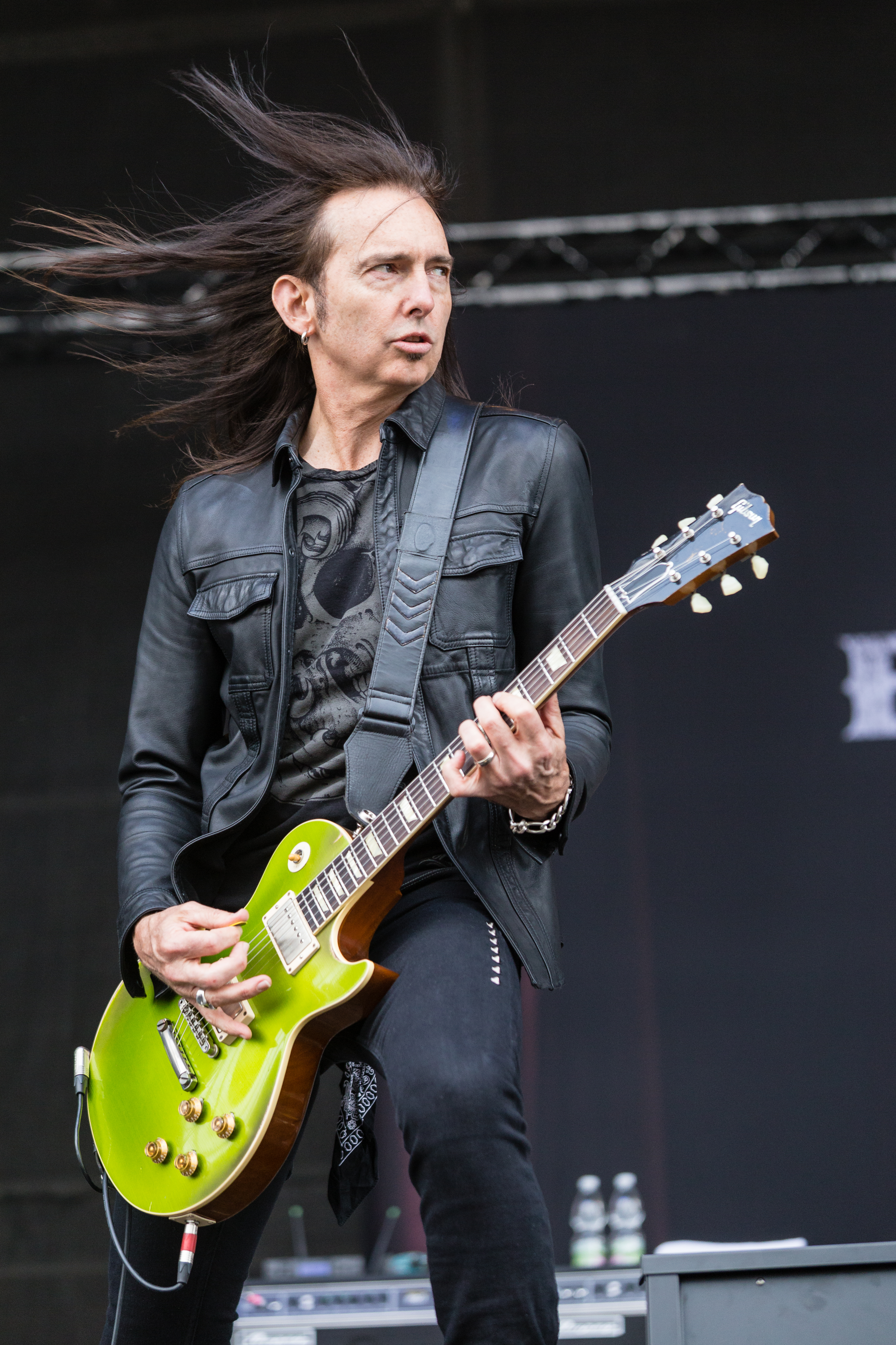 Nova Rock 2017 Damon Johnson from Black Star Riders at the Nova Rock 2017